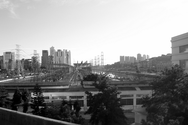 Type of a Run-of-the-river hydroelectric generating station located in São Paulo, Brazil. Details: Usina Elevatória de Traição